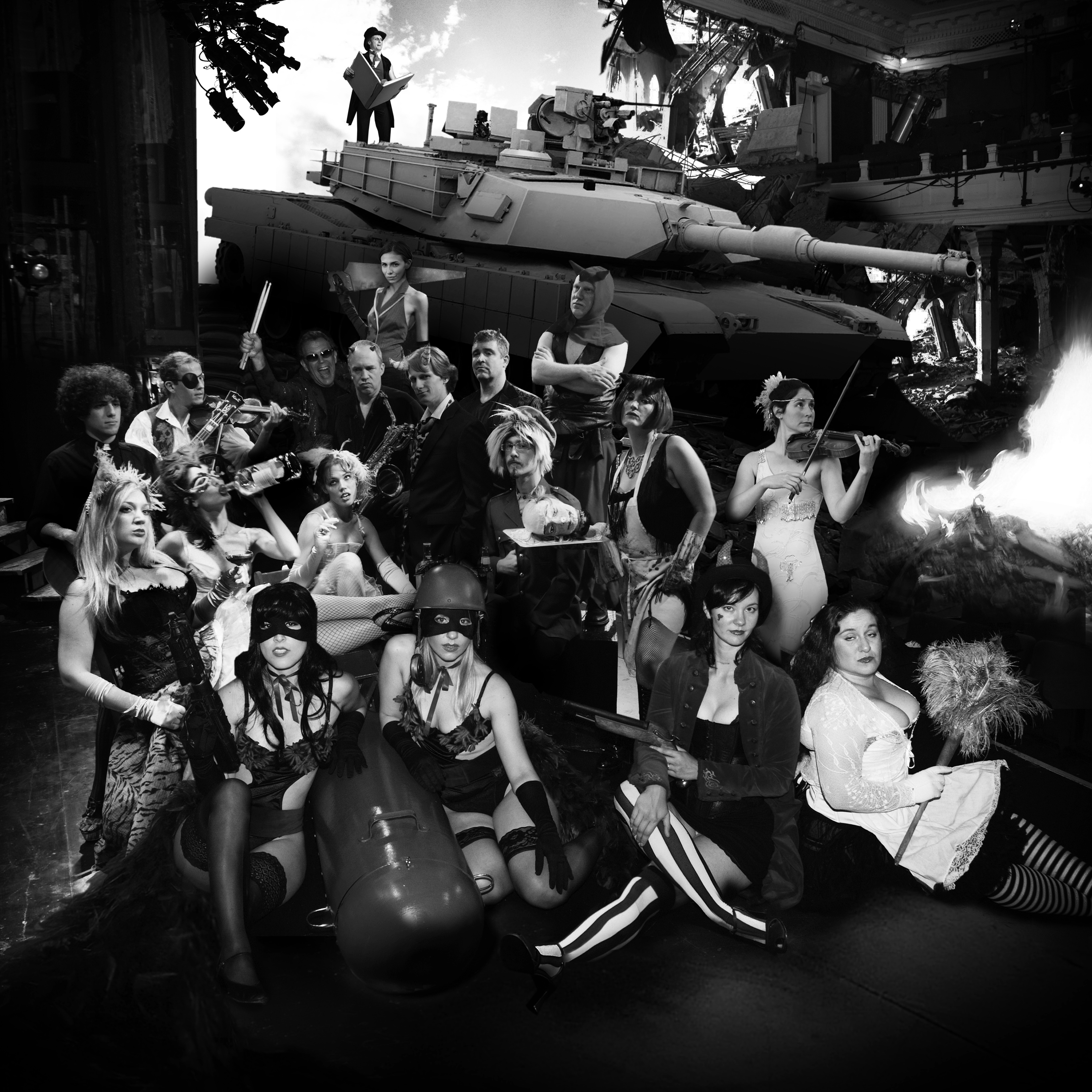 Group photo of Cabaret Red Light.